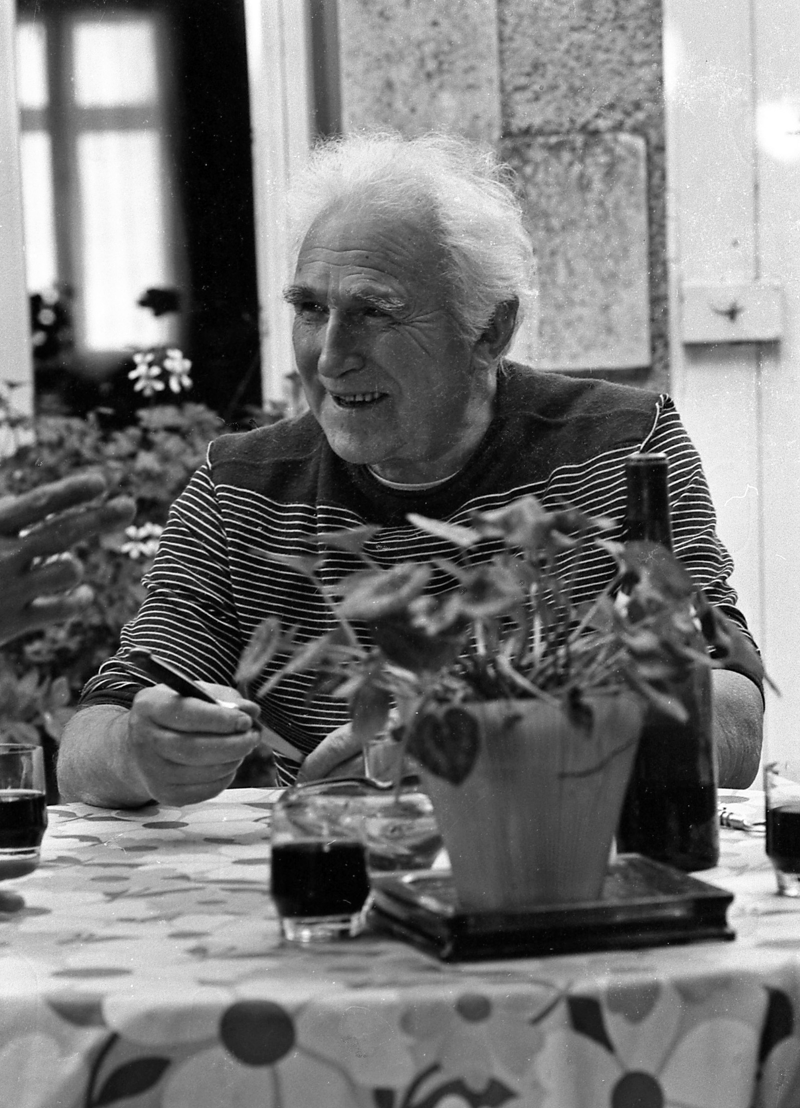 The painter Aristide Caillaud, seated on the terrace of his garden in Jaunay-Clan in 1972